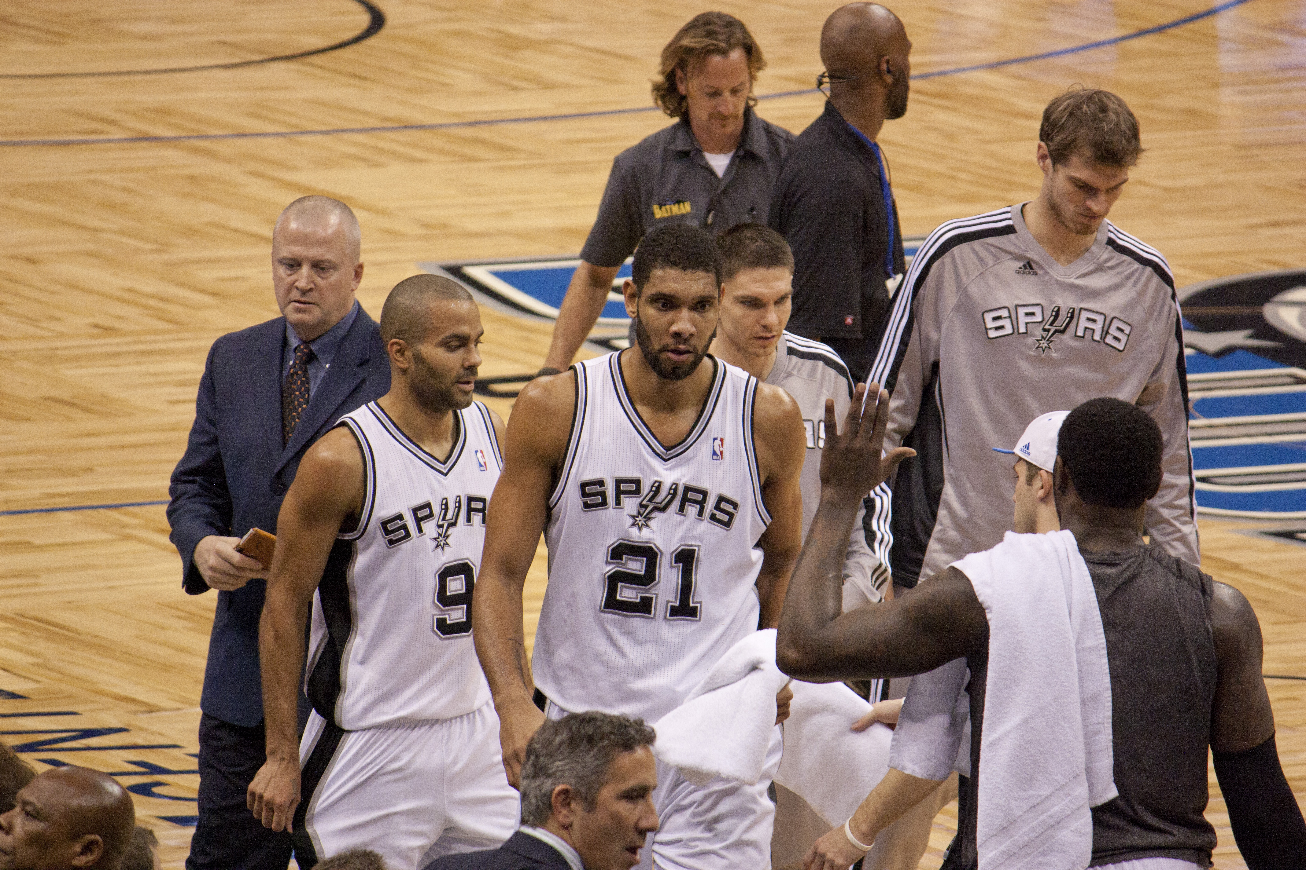 San Antonio Spurs approach bench during a timeout.